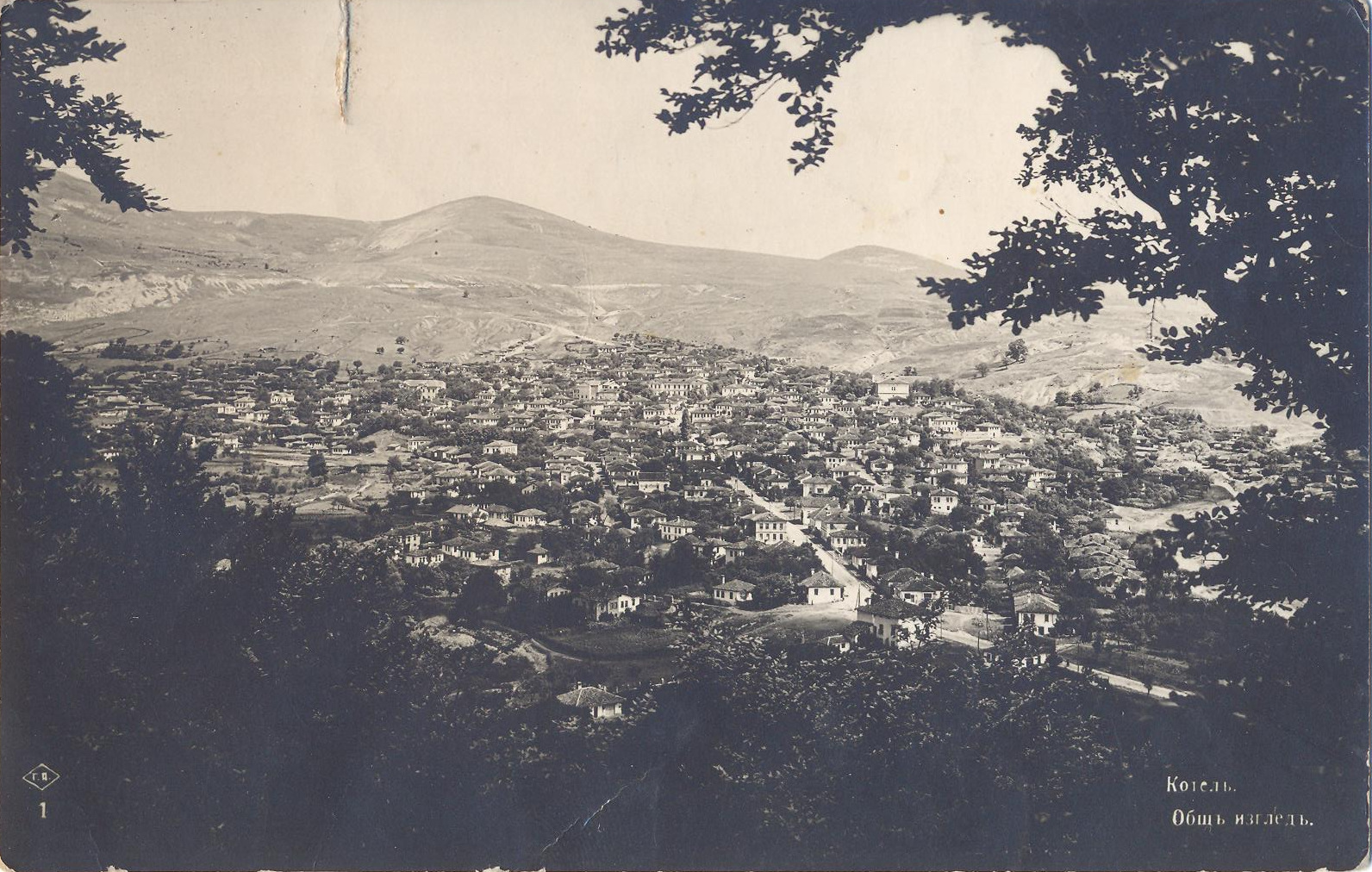 Postcard from Kotel, Bulgaria